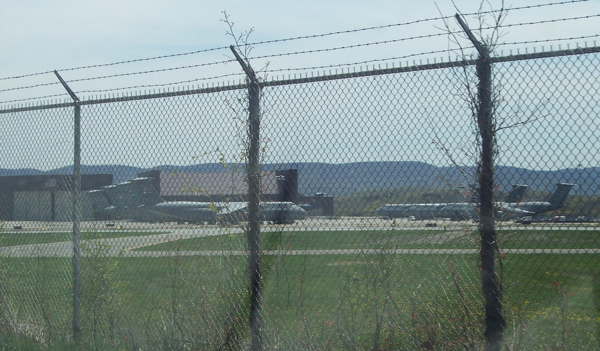 A photo of the C-5's at the Air Force base in Stewart Air National Guard Base from NYS Route 17K.